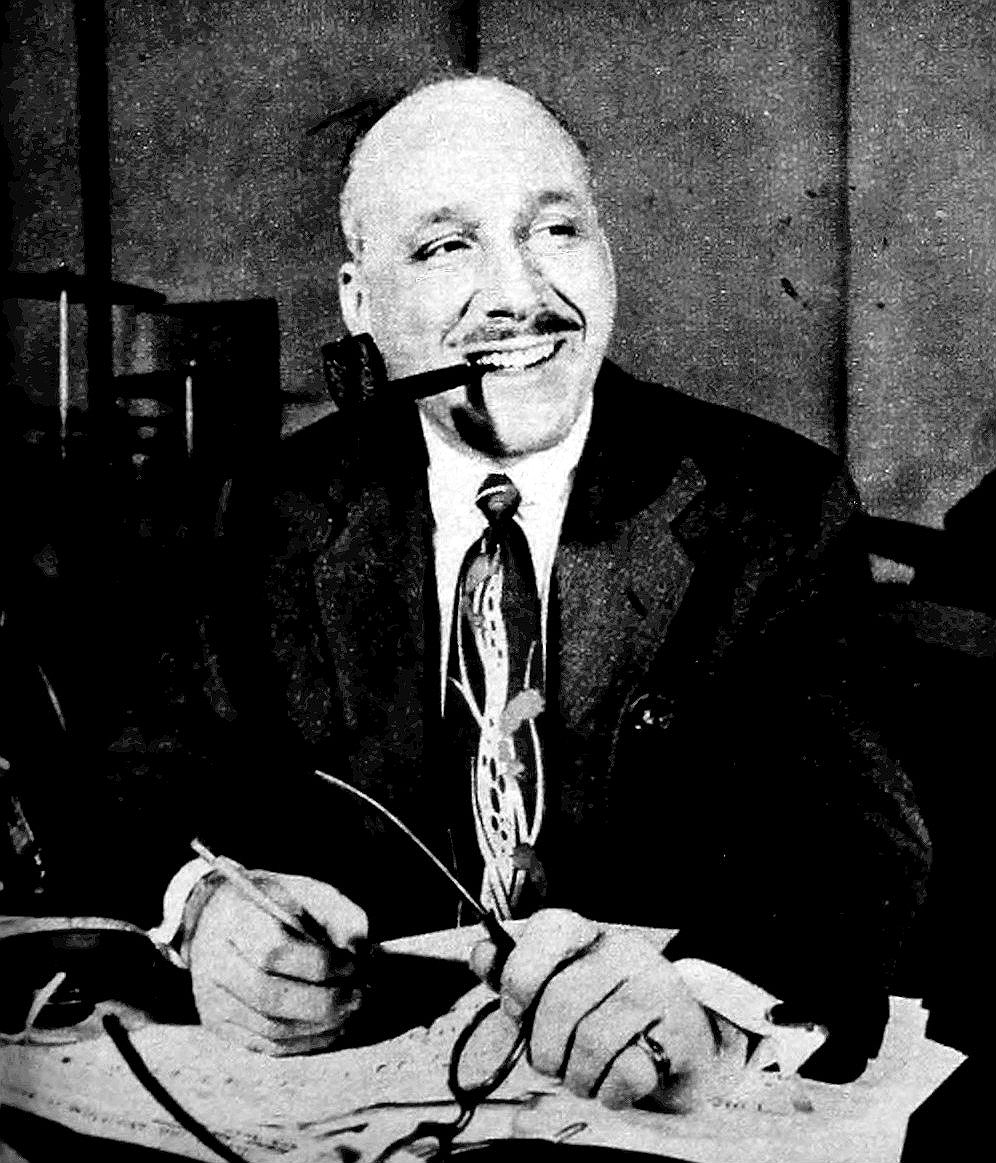 Photo of Ray Bloch from Radio Television Mirror magazine.